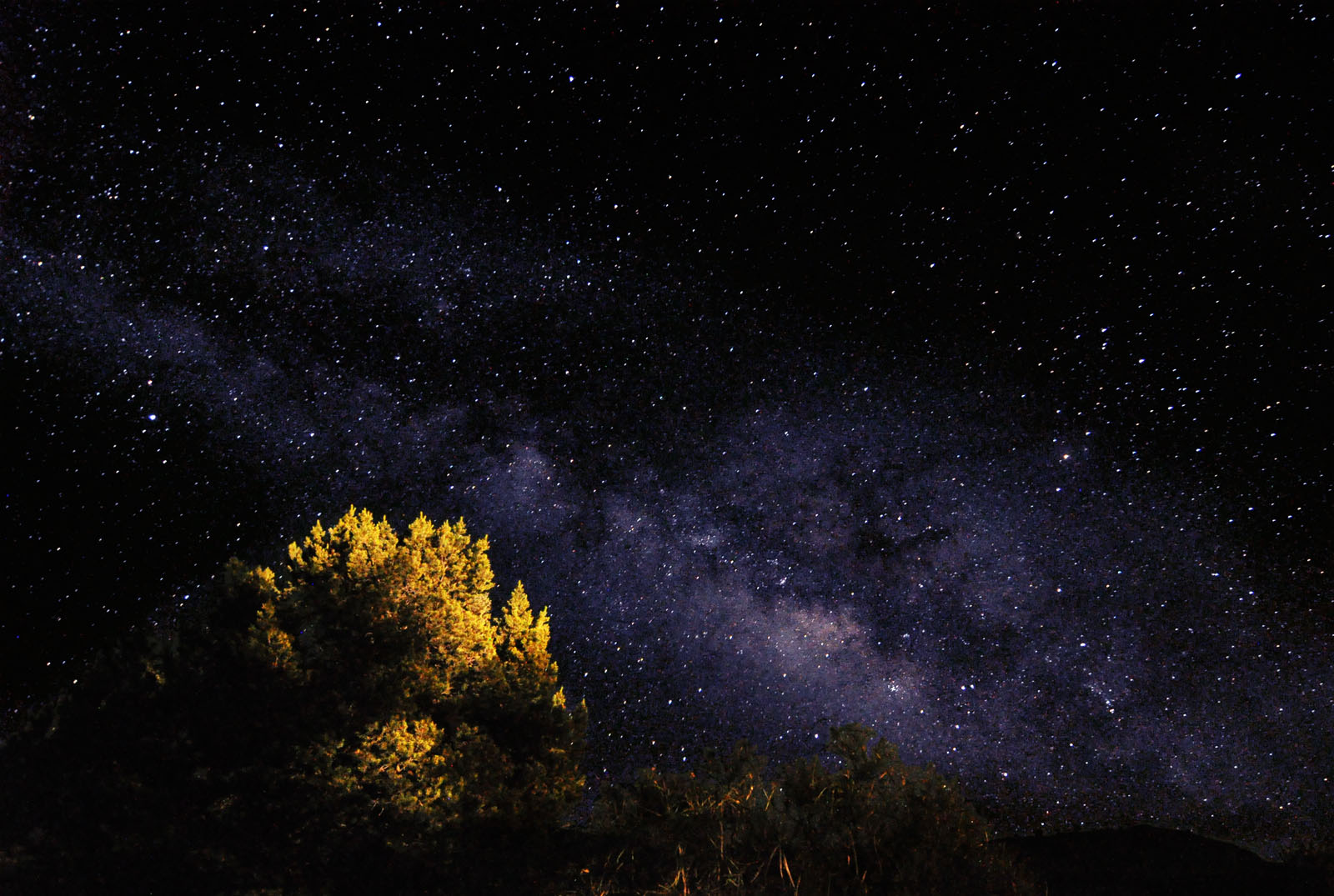 The night sky at Indian Lodge and Davis Mountains State Park, Texas.